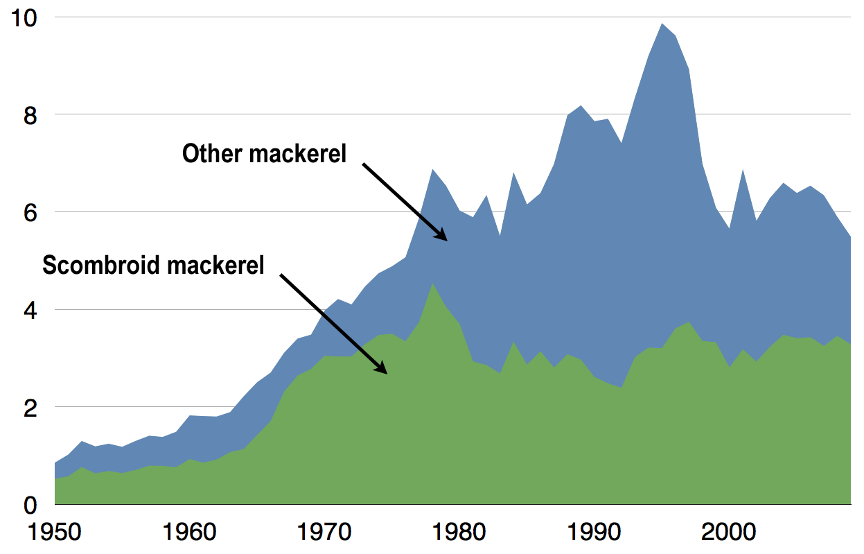 Global capture of all mackerel (both true and non true) species in million tonnes, 1950–2009. Based on data sourced from FAO Species Fact Sheets.